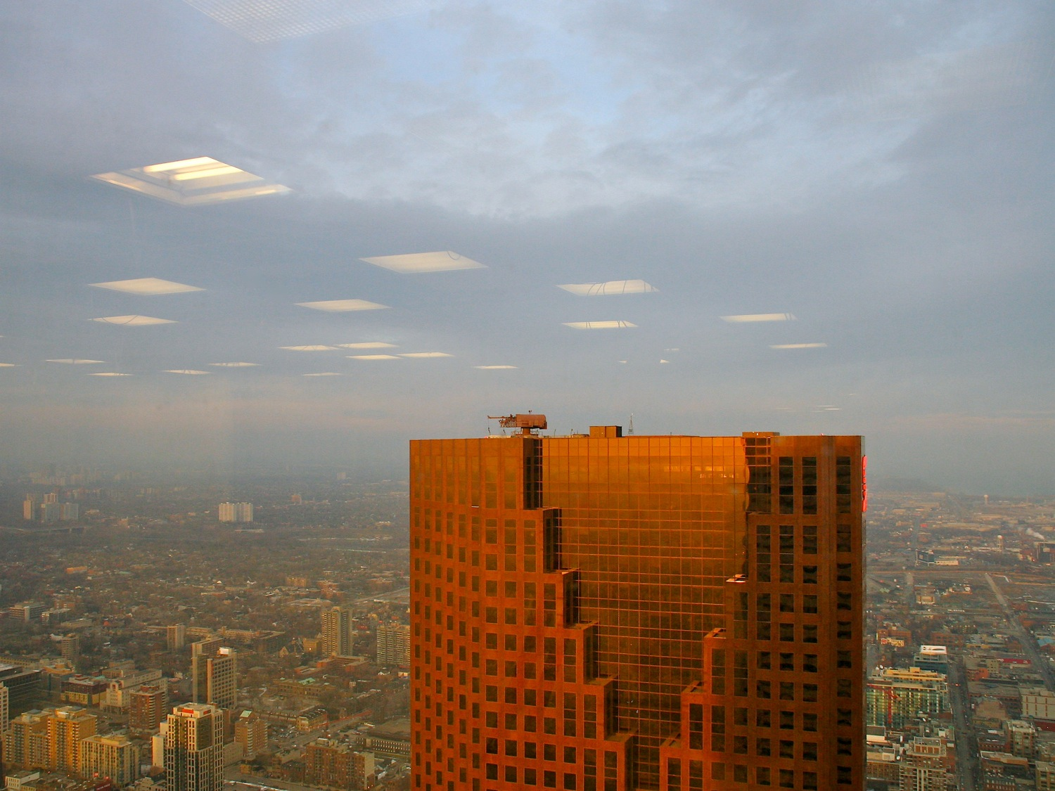 Photo of Scotia Plaza, Toronto taken from BMO skyscraper @ March 13, 2007